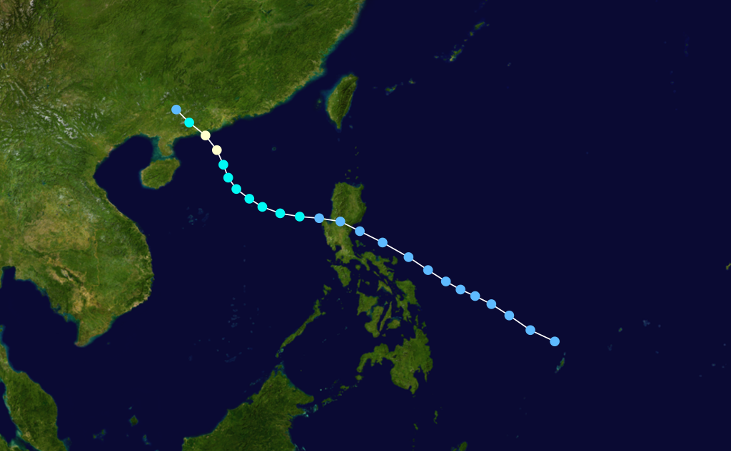 Typhoon Joe 1983 track. Uses the color scheme from the Saffir-Simpson Hurricane Scale.